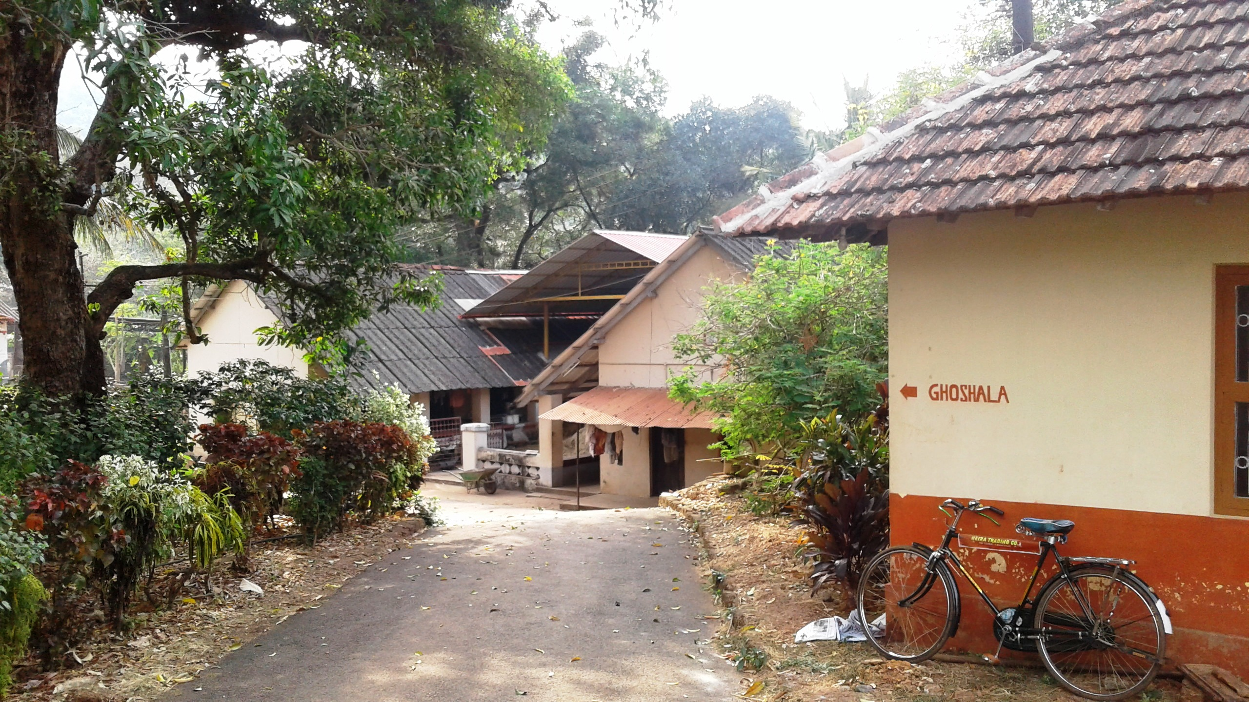 Kasaragod - Kanhangad road, Kasaragod District, Kerala state, India.